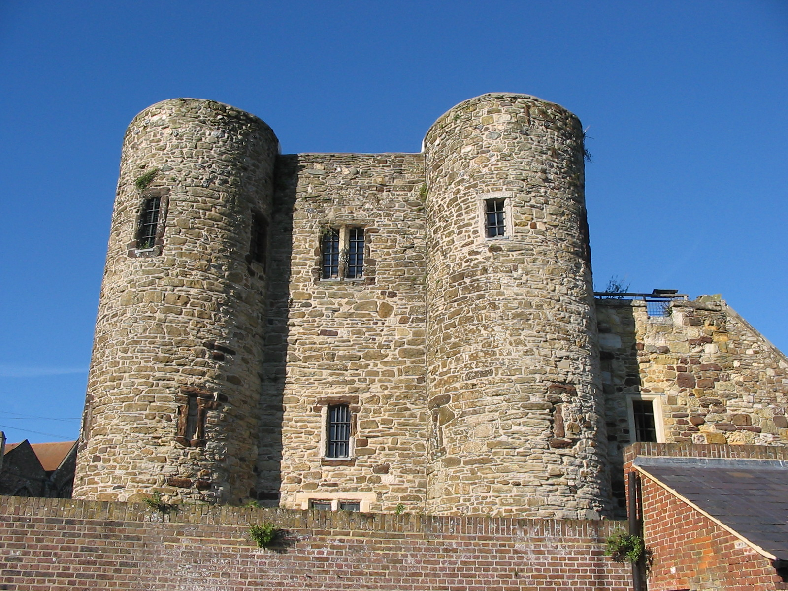 The Ypres Tower in Rye, East Sussex